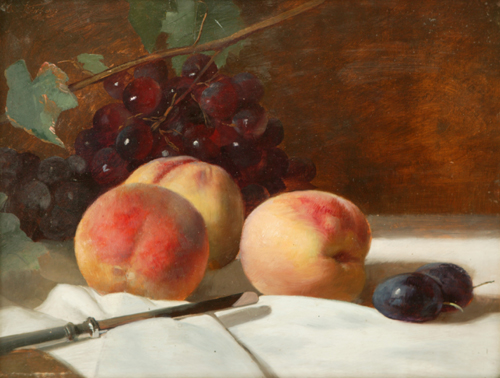 Fruit Still Life; Oil on panel; 9 ¼ x 12 ¼ inches